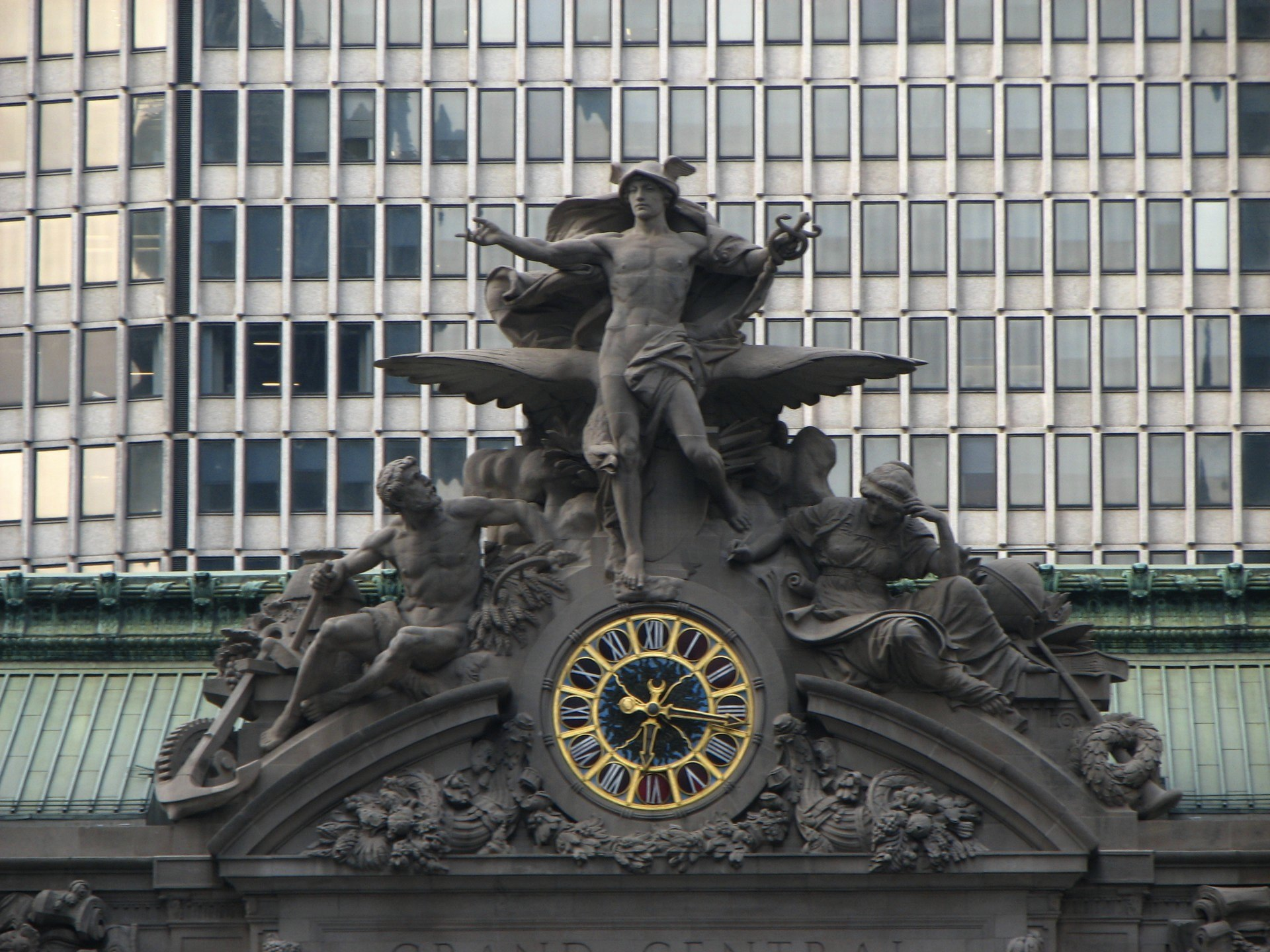 The terminal facade. Mercury (god of commerce) is the central figure. This s a statue of Mineva, Mercury and Hercules.